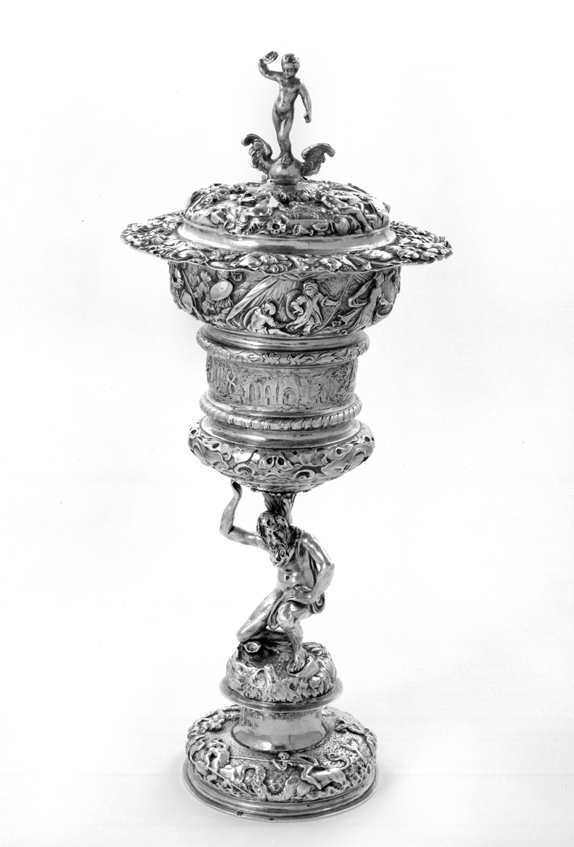 Welcome cup, silver, formerly the property of the Stockholm Carpenters’ Guild. By Arvid Falck, Stockholm, 1667. Item no. 283099.